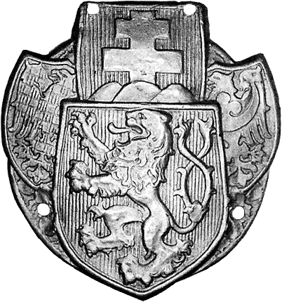 Coat of arm of Czech legions